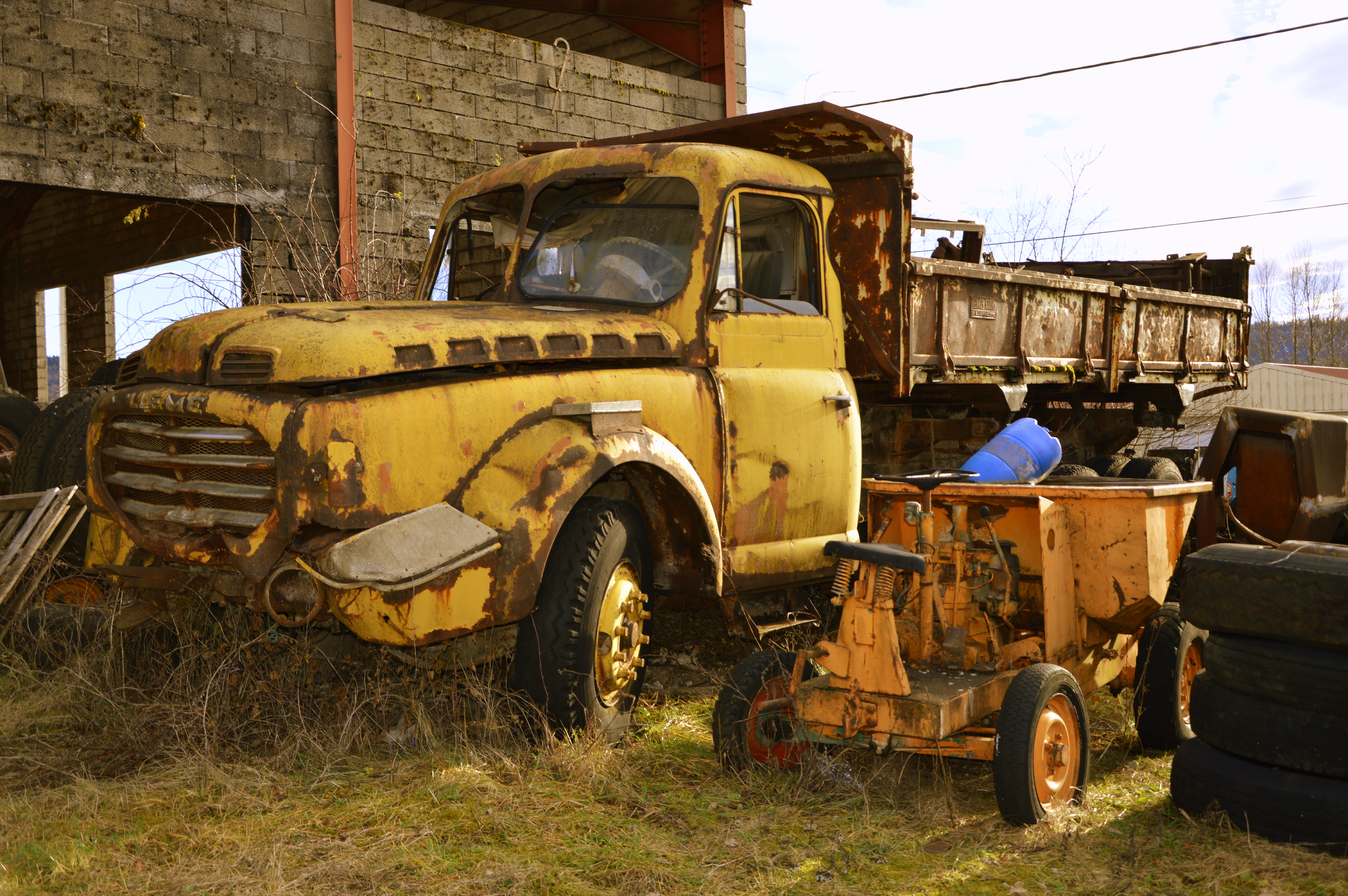 Willeme dump truck LD 610 from 1954. V6 engine. Two axles. 19 tons.